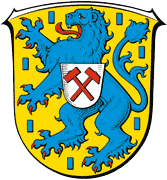 Coat of Arms of Solms